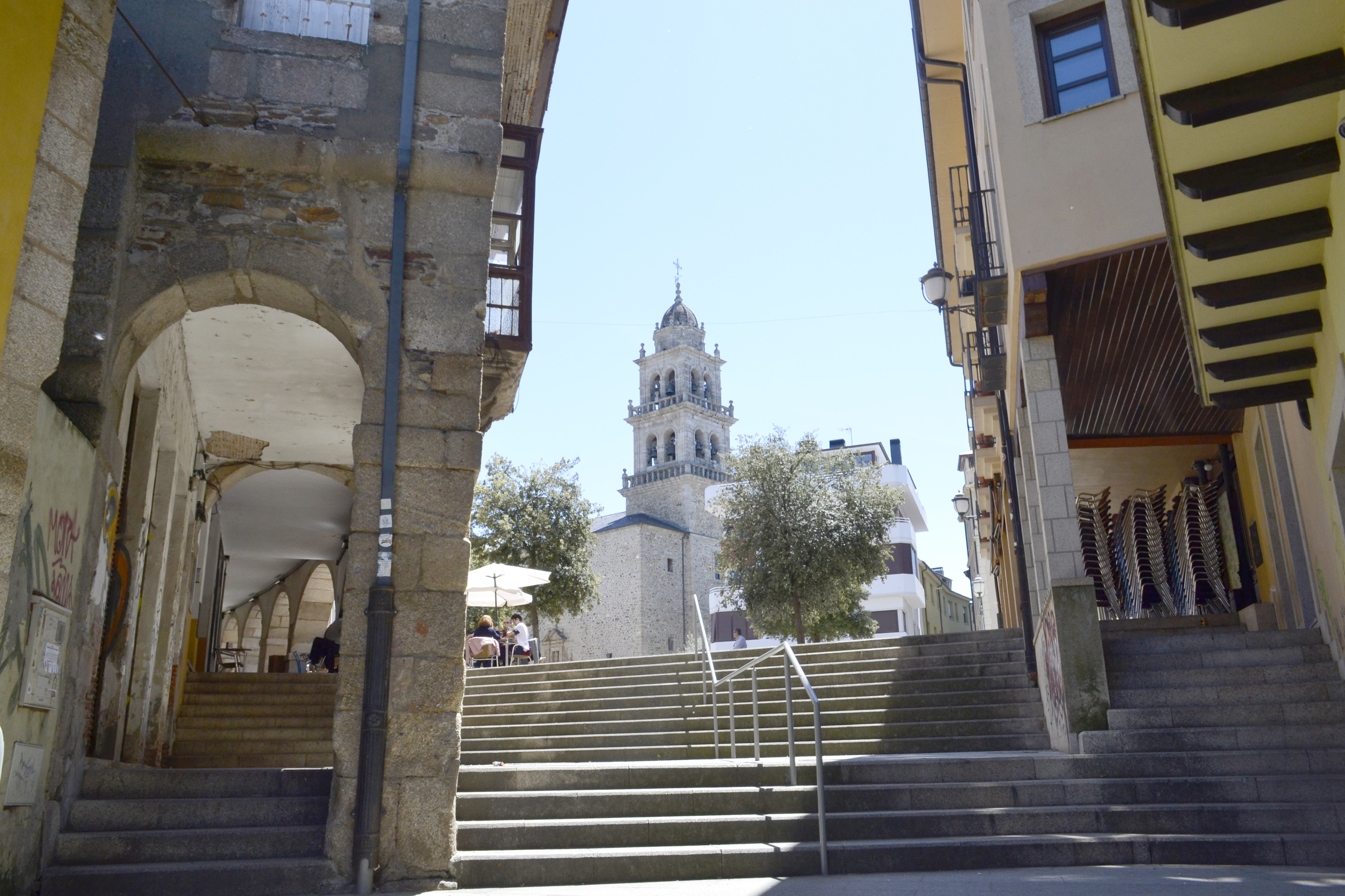 View of the Basilica of the Virgen de la Encina from Rañadero street, in Ponferrada.